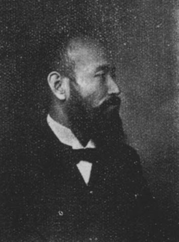 Mr. Heizaburō Takashima, lecturer of the Toyo University and the Nichiren Shu University.